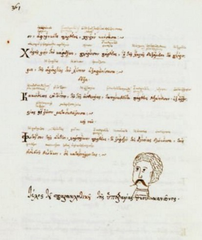 Manuscript of Ioannis Emmanouil partener and bear Witness Riga Velestinli